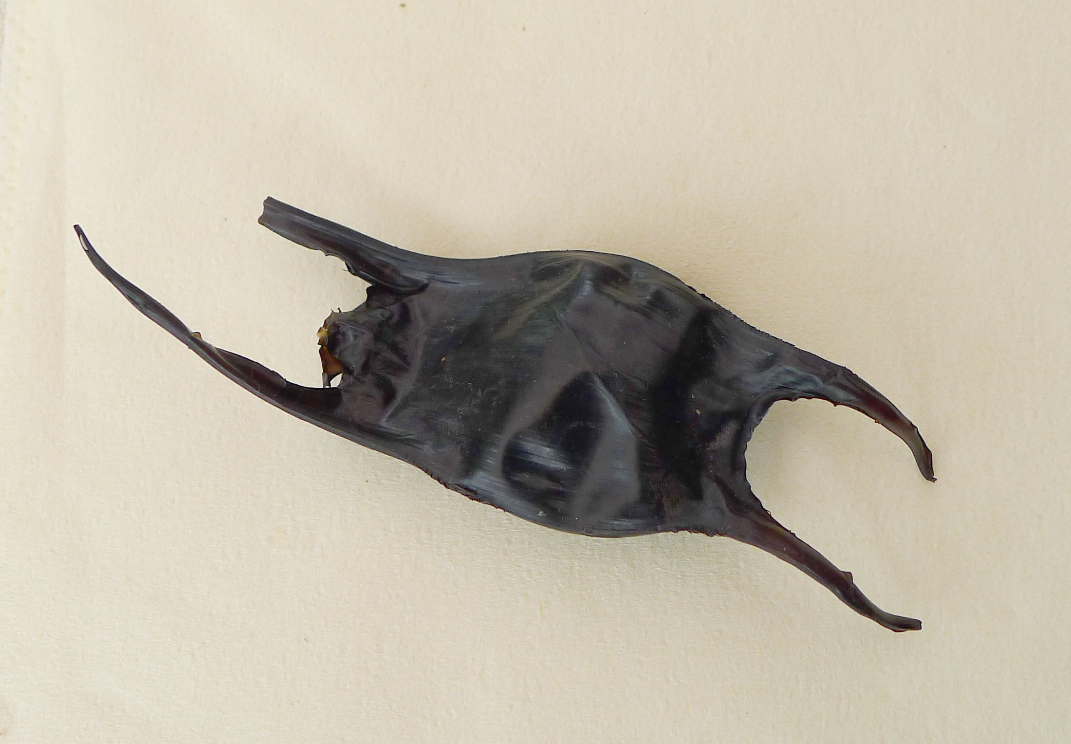 Oa Peninsular, Islay, Scotland. NR2694